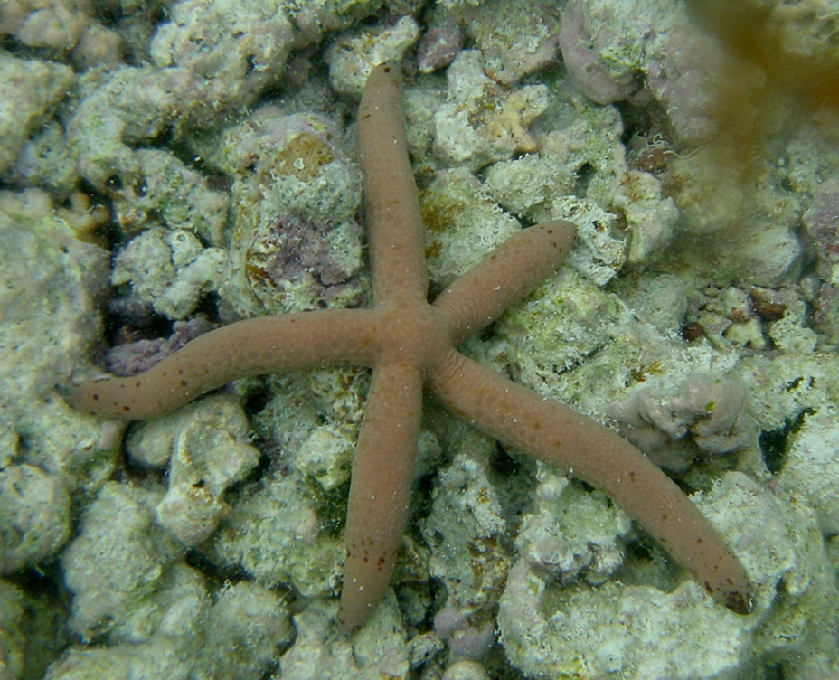 A small brown starfish (Linckia guildingi) Image ID: reef0605, NOAA's Coral Kingdom Collection Location: Northwest Hawaiian Islands